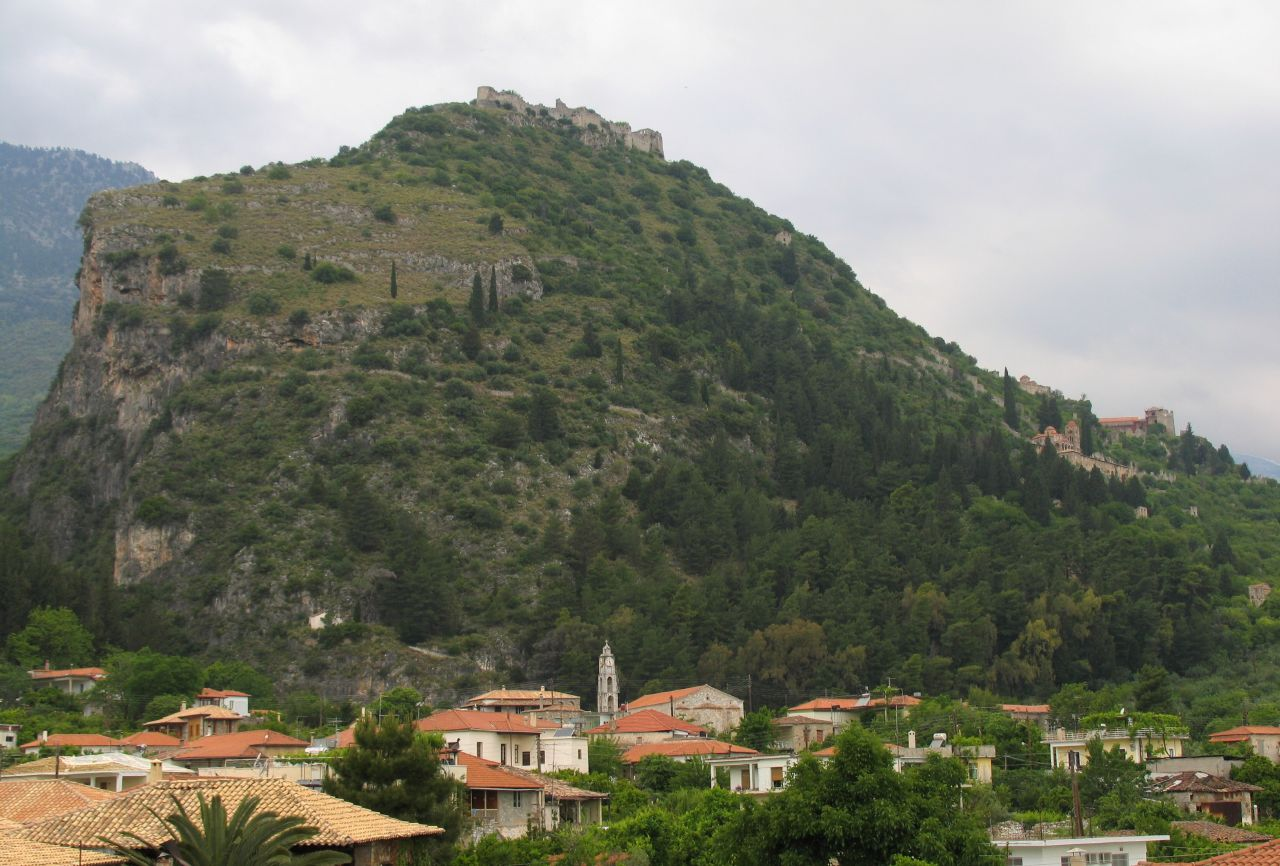 View of Mistra. The new village and the byzantine city.